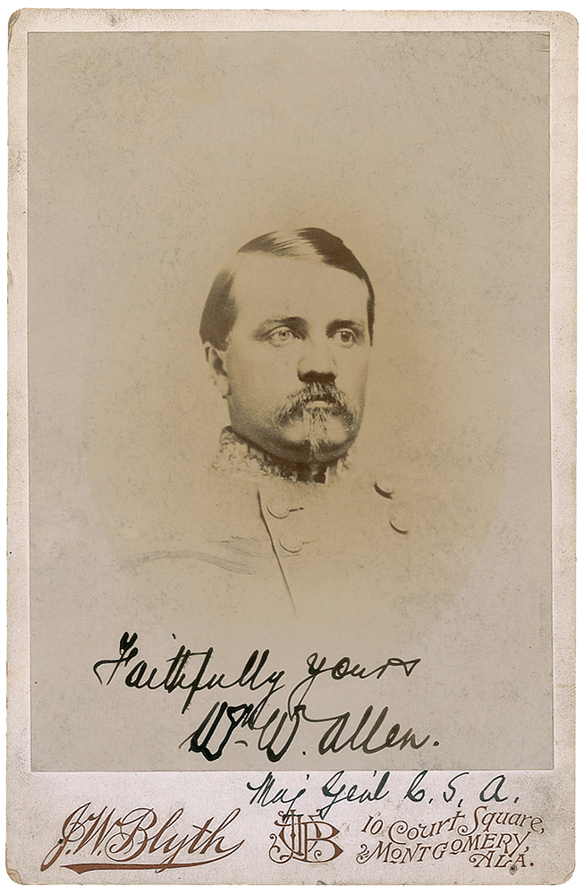 4.25in x 6.5in cabinet photo of William W. Allen by J. W. Blyth, signed at the bottom in black ink, “Faithfully yours, Wm. W. Allen, Maj. Gen’l C.S.A.” through RR Auctions